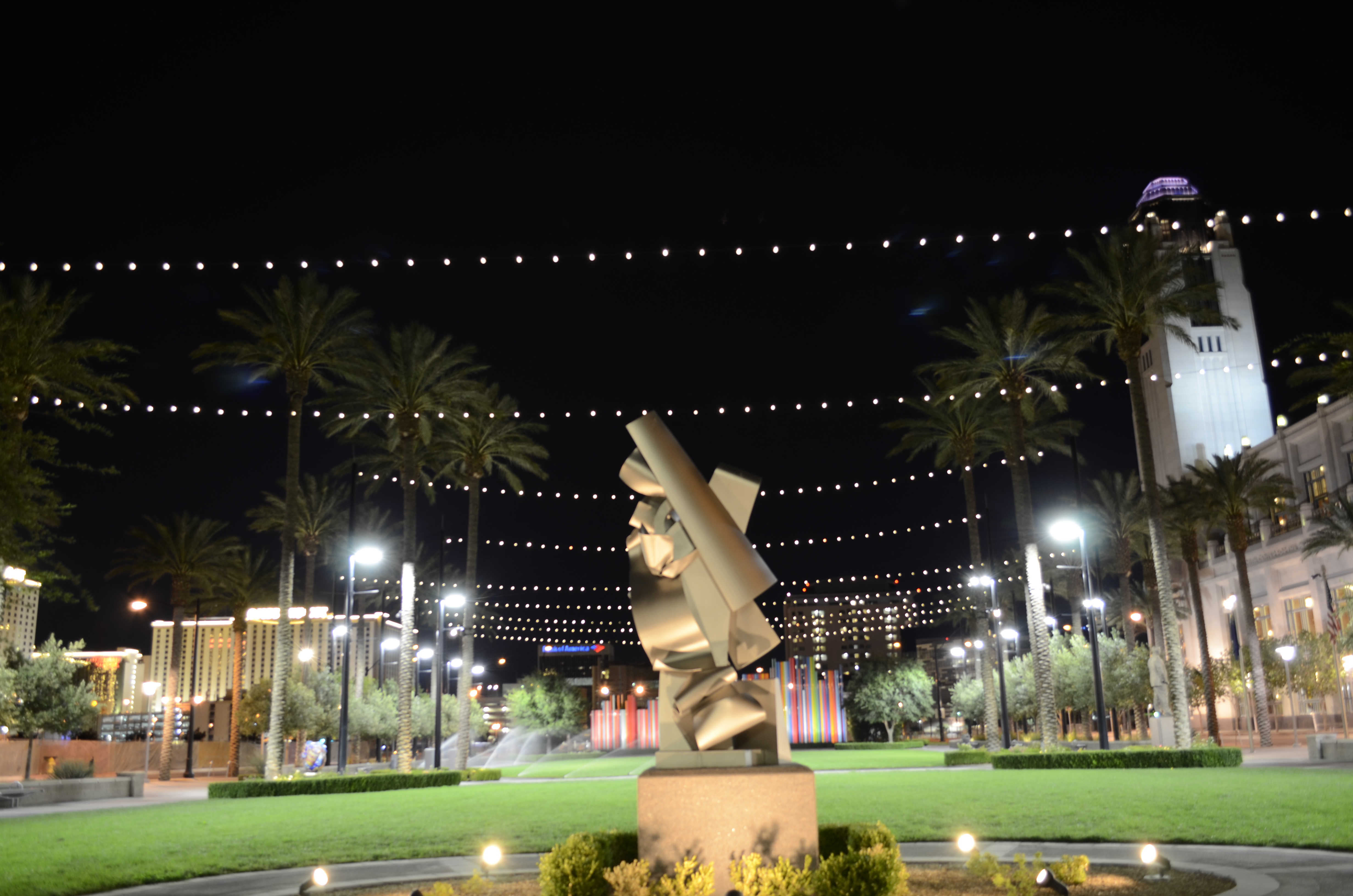 Symphony Park & The Smith Center, DTLV August 2016